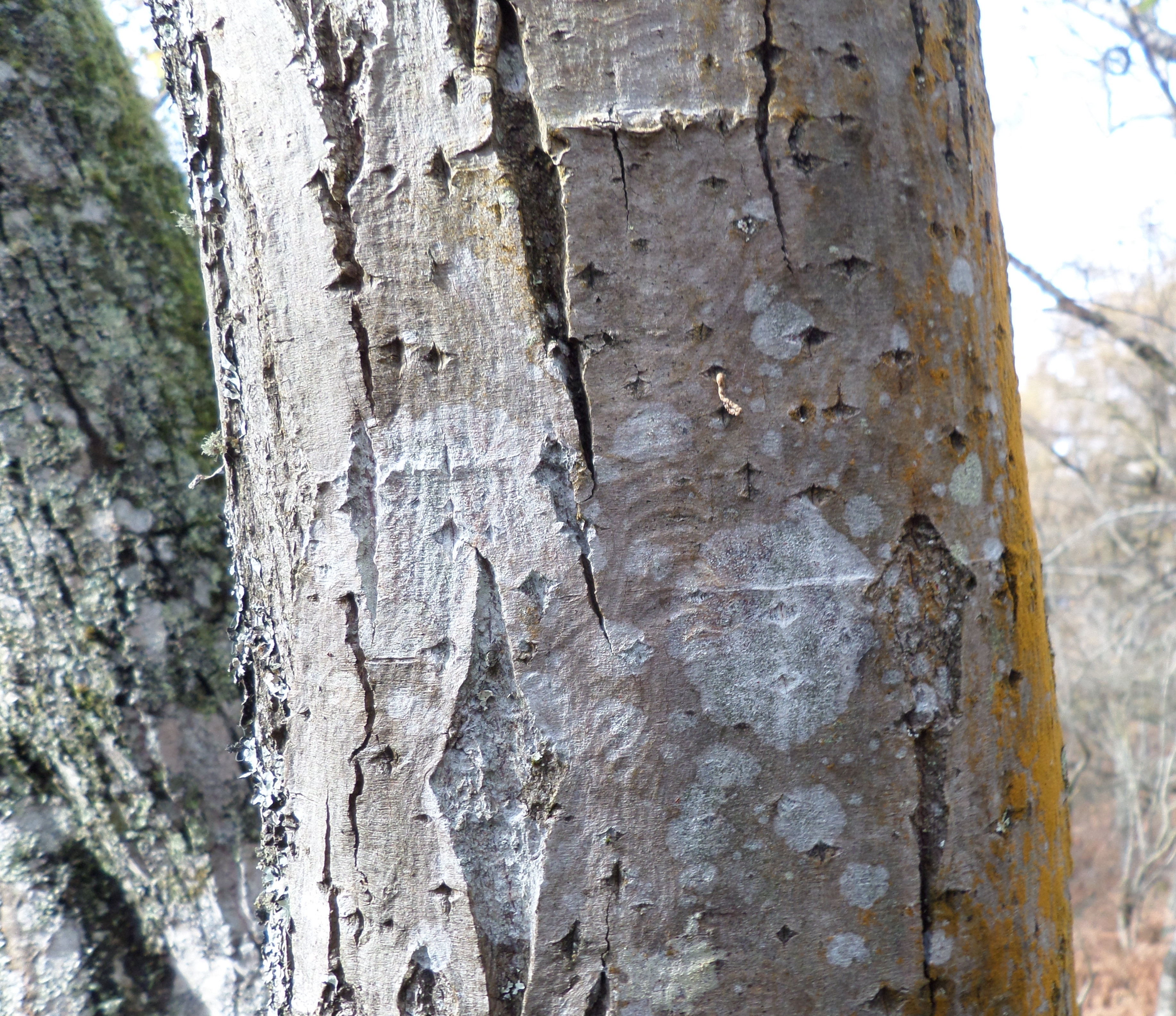 Willow (Salix spps) lenticels on old tree bark, Balmaha, Sterling, Scotland